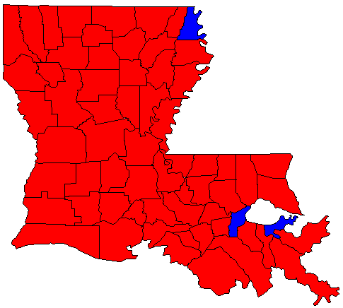 Louisiana Insurance Commissioner 2011 parish map